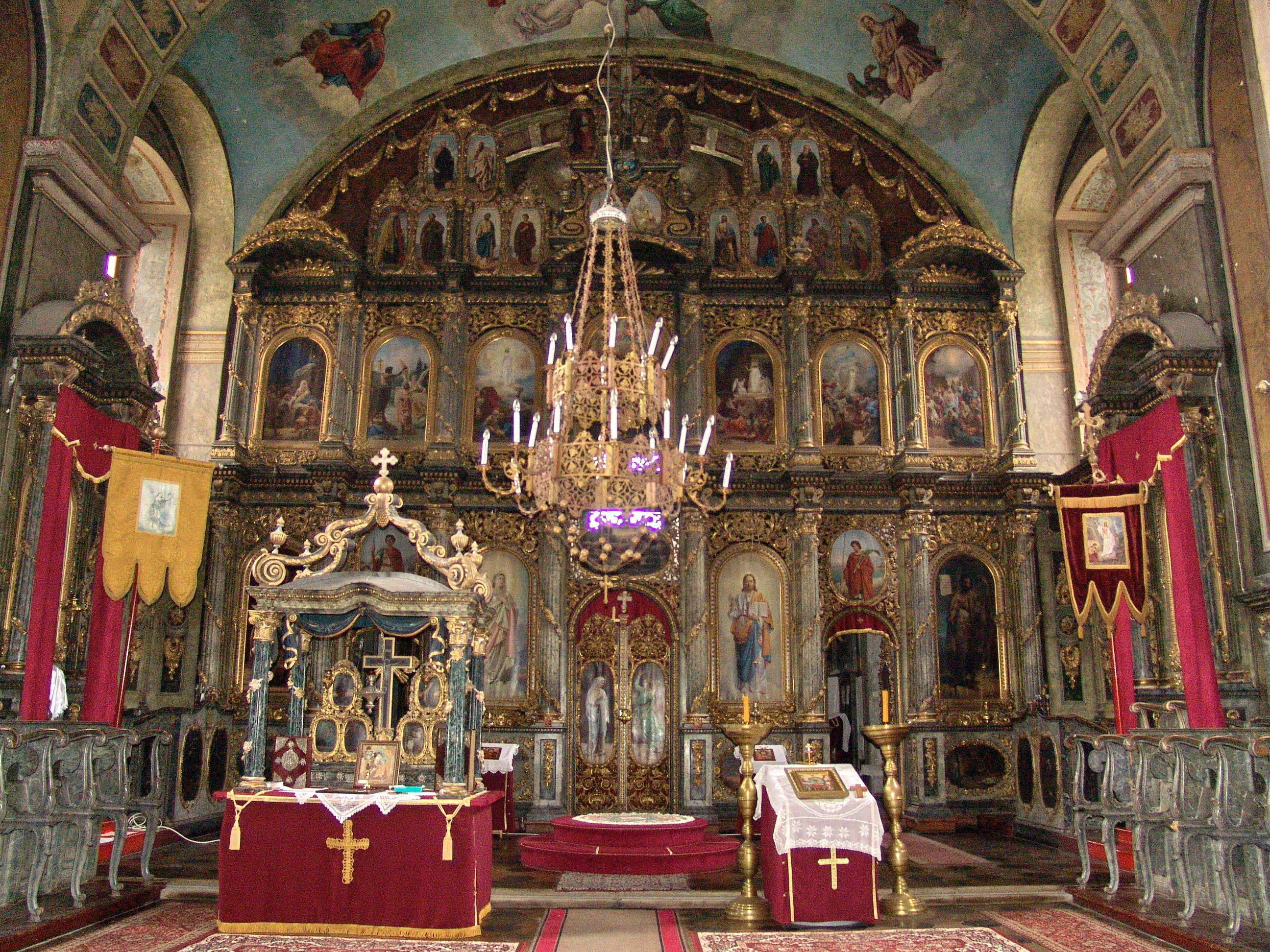 Serbian Orthodox church of the Dormition of the Mother of God in Perlez - iconostasis